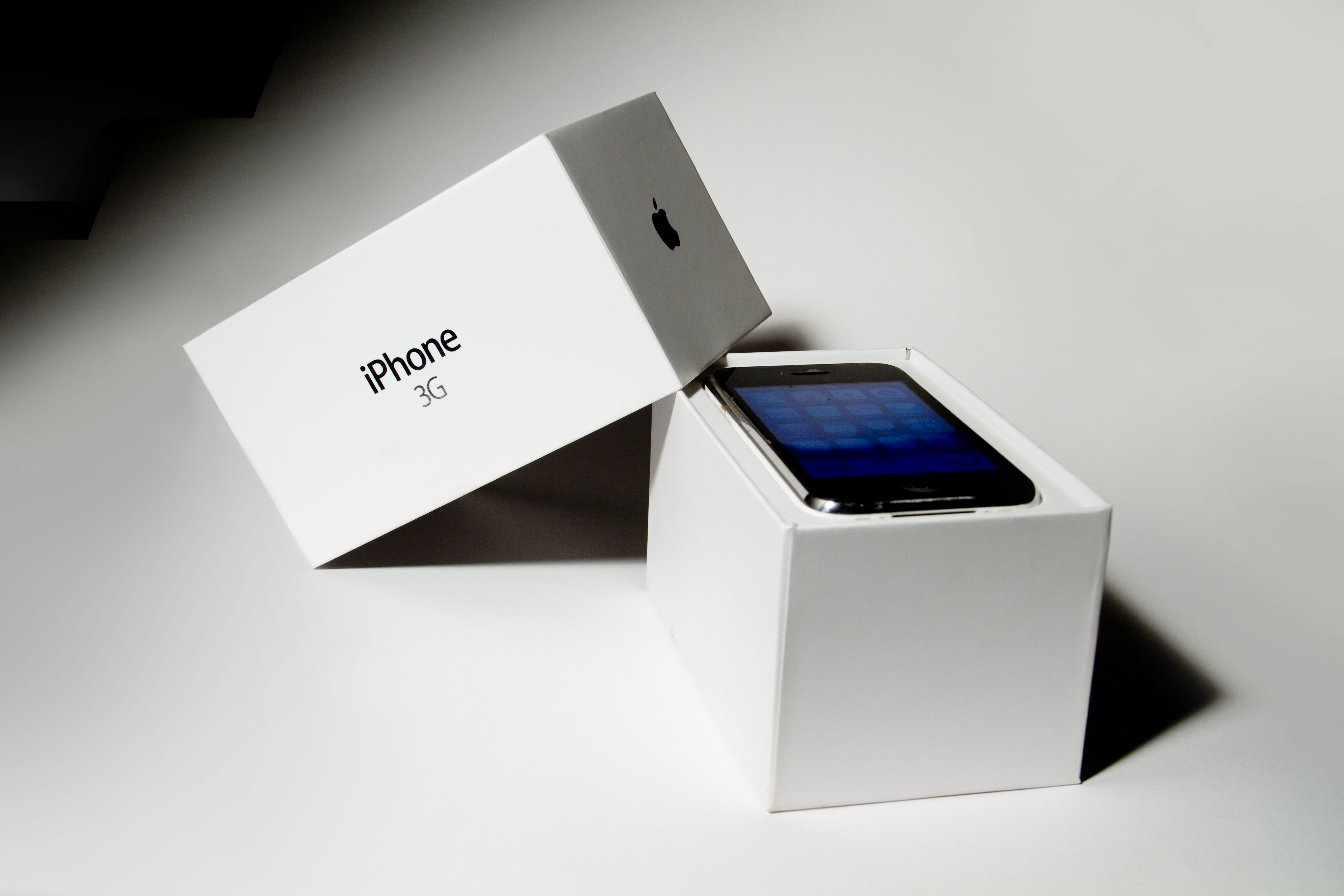 an iPhone 3G in its original packaging